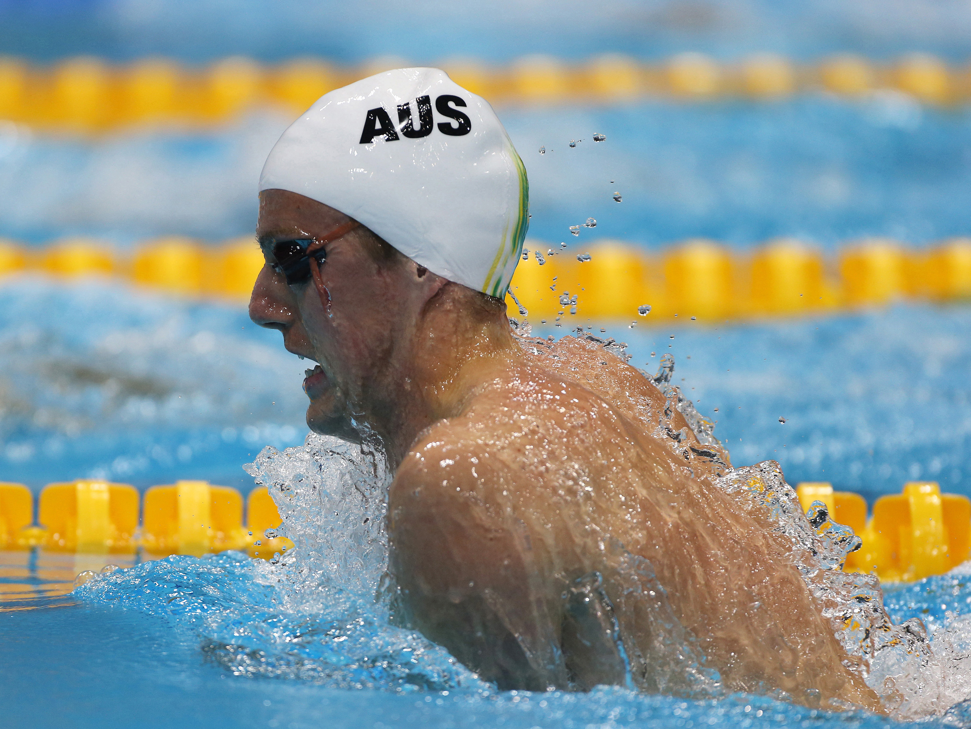 Photograph of Australian Paralympic team member Matthew Cowdrey at the 2012 Summer Paralympic Games in London